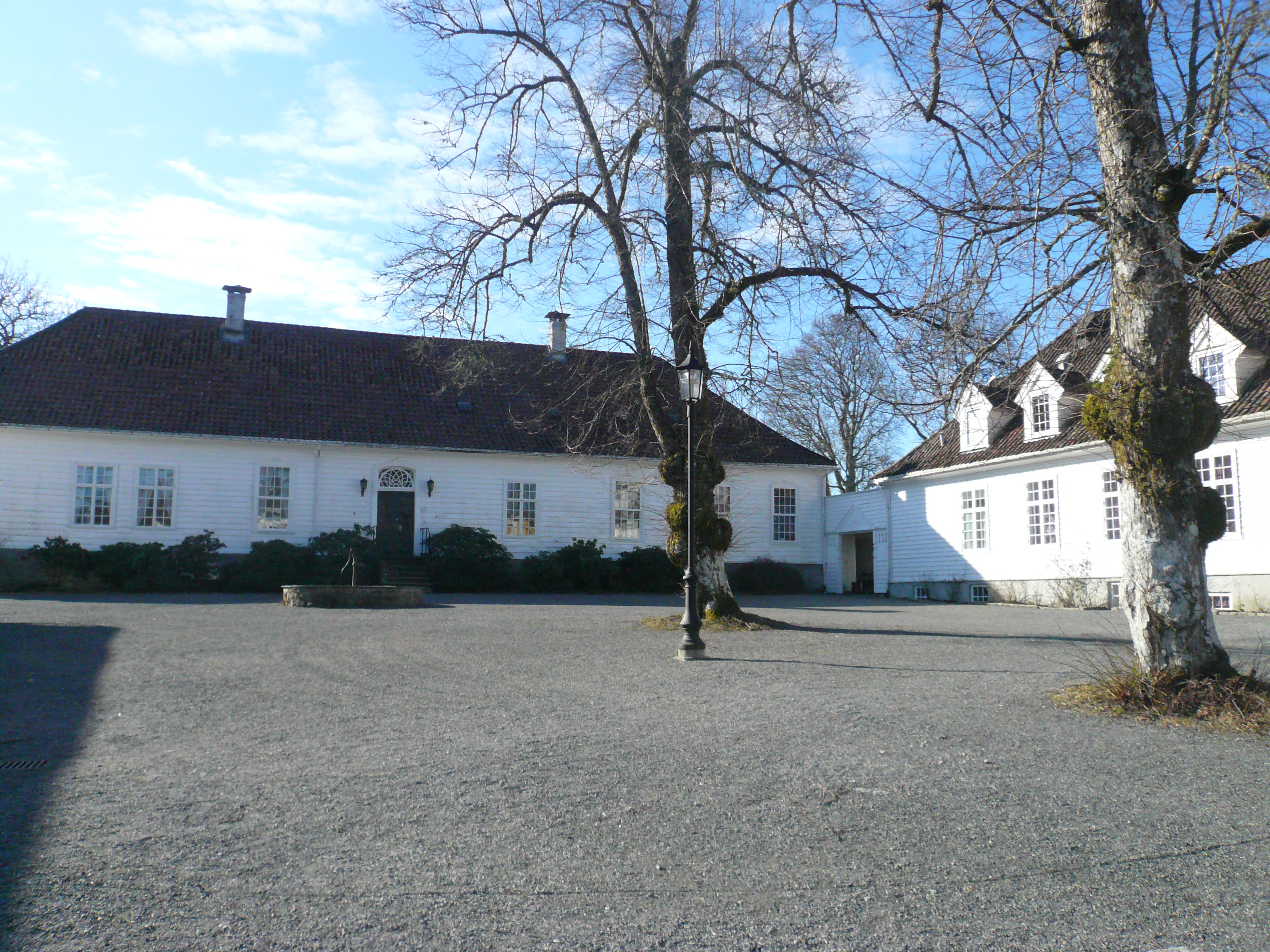 Courtyard at StoreMilde, Bergen, Norway